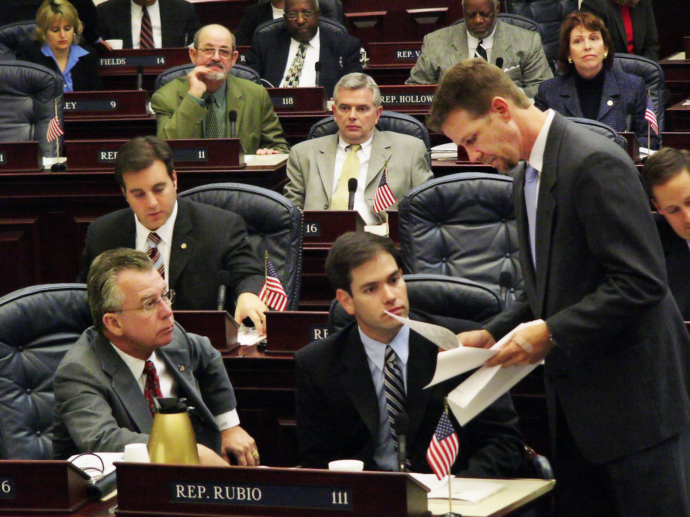 PreK-12 Committee member & Rules Chairman Rep J. Dudley Goodlette, R-Naples, left; Rep. Marco Rubio, R-Maimi, center; and Majority Leader Andy Gardiner, R- Orlando, right; confer during the Special session of the Legislature on the House floor Monday, Dec. 13, 2004, in Tallahassee, Florida.